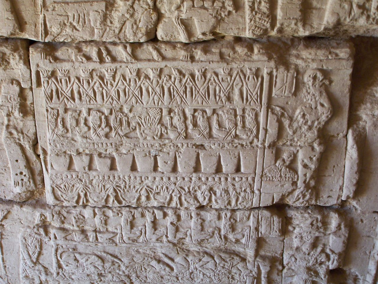 Ornaments at the Meroe Pyramids in Sudan at 30th september 2005, at the pyramide N12